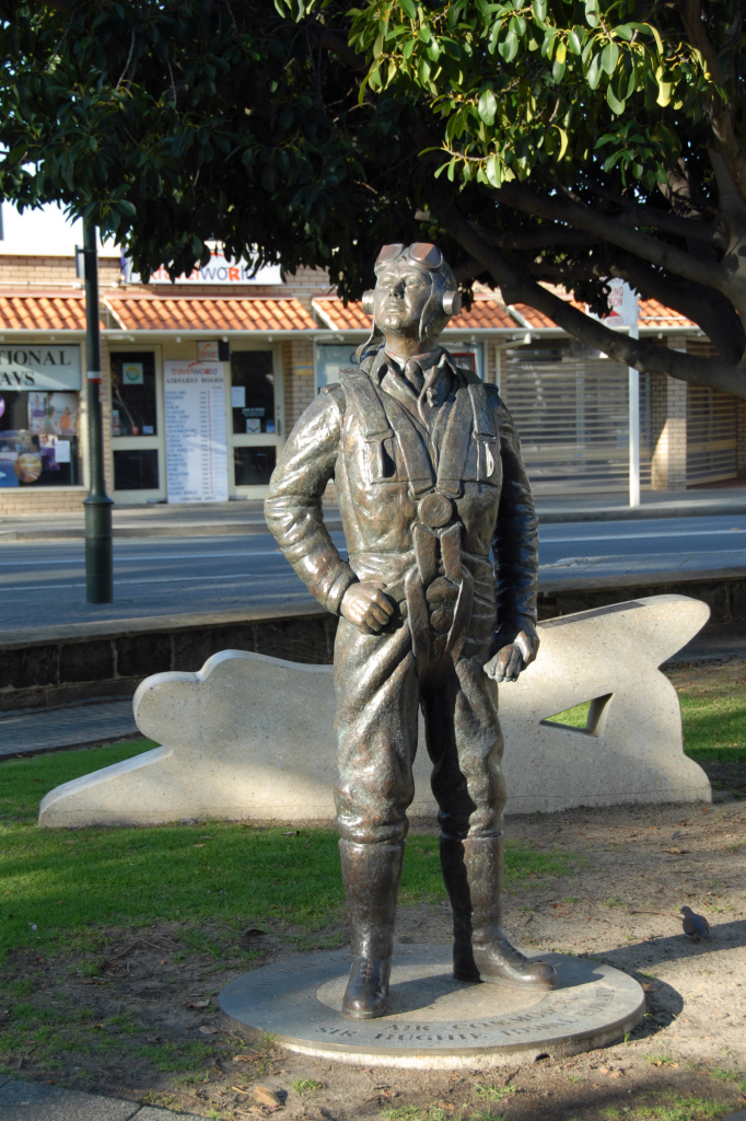 Statue of Hughie Edwards in Fremantle, Western Australia. The artist is Andrew Kay. It was commissioned in 2002. The stone aeronautical-form behind the statue is afixed with a plaque detailing his war record, honours, and his appointment as Govenor of Western Australia. The motto "per ardua ad astra" ends the detail of the subject.